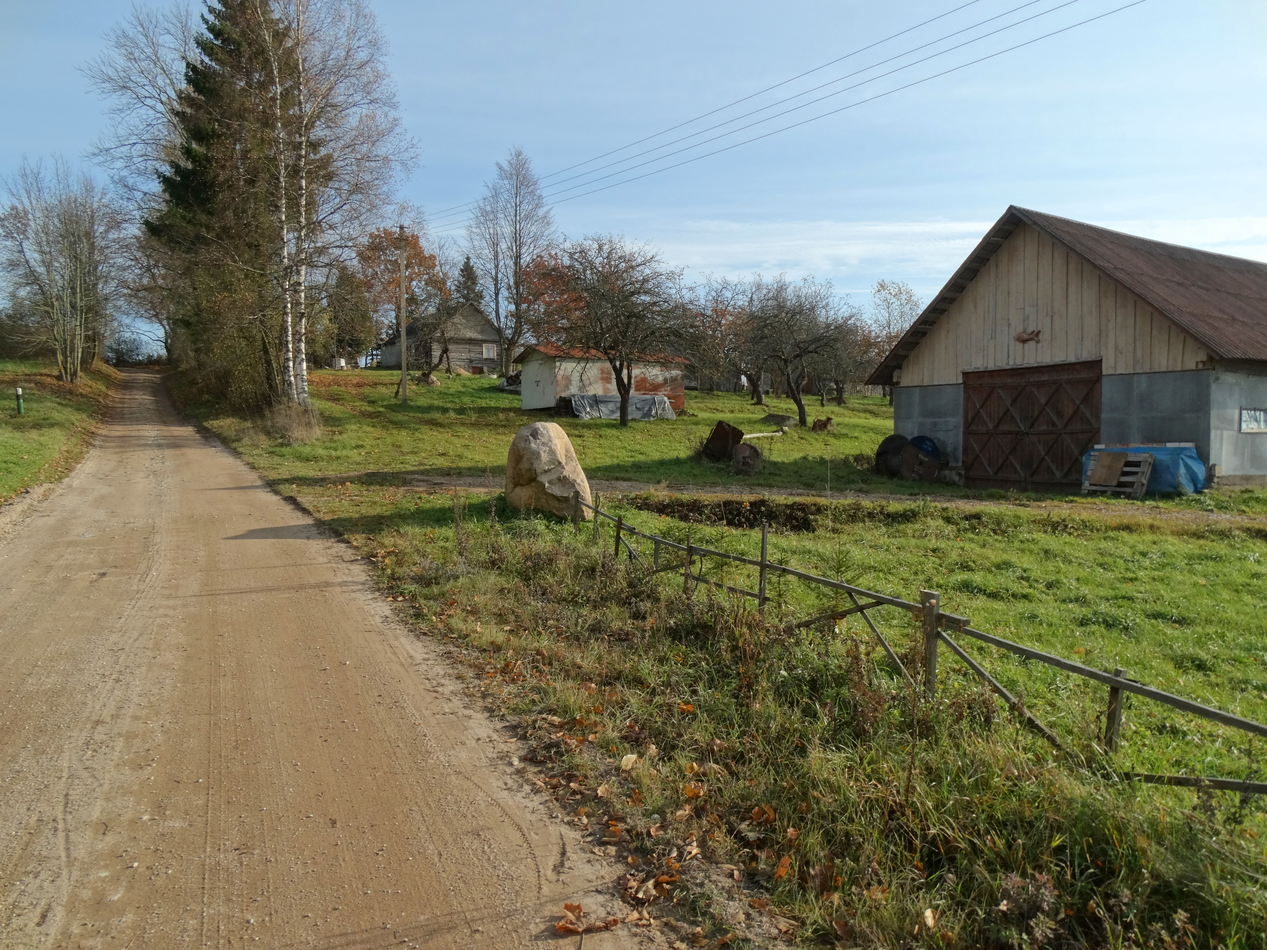 Gateliai, Utena district, Lithuania